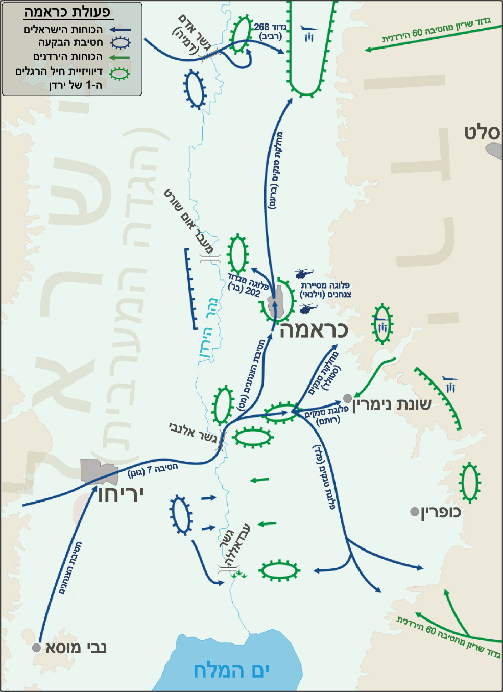 Battle of Karameh, for the article on Wikipedia. Based on previous map of the area made for this purpose.